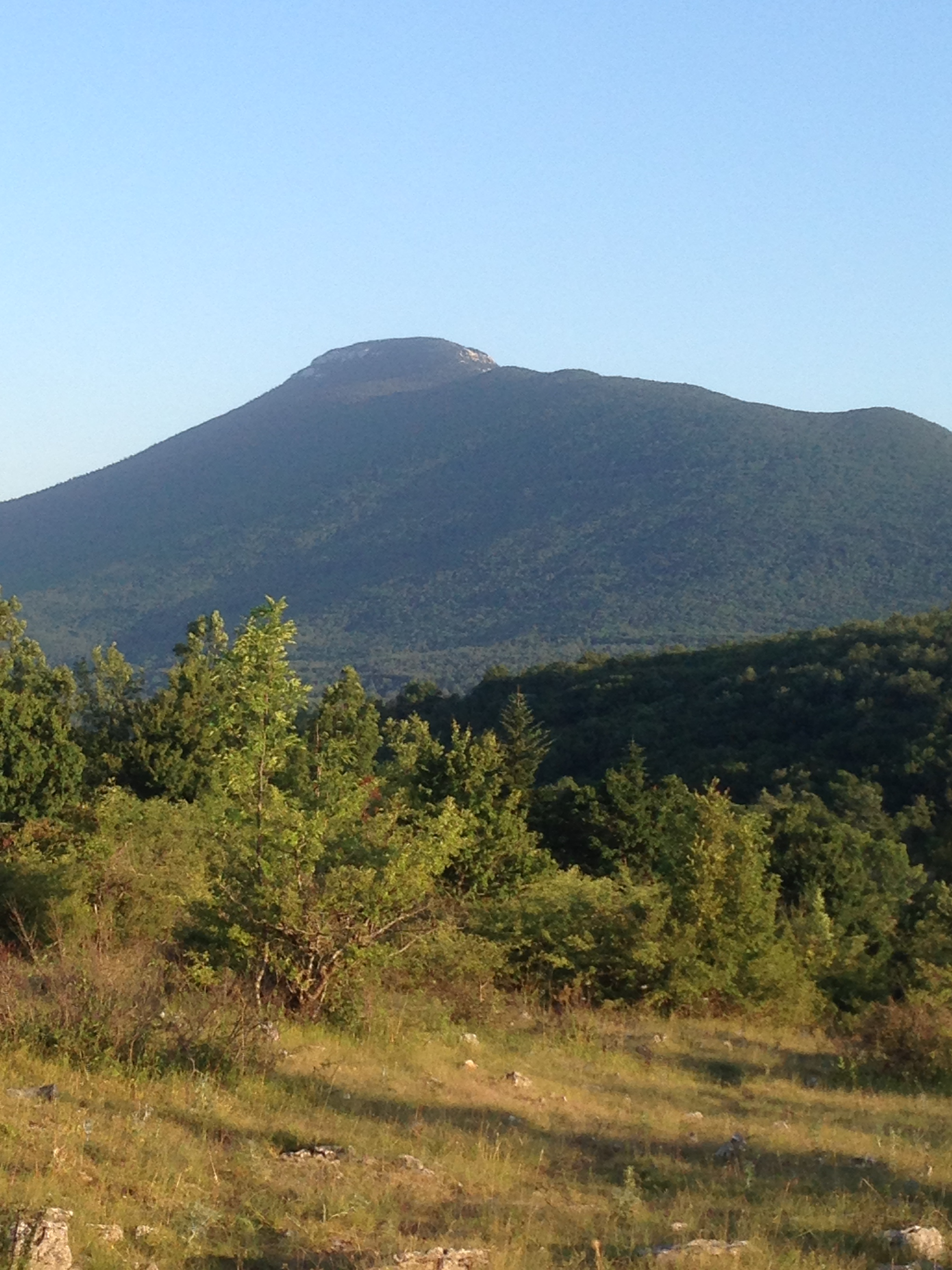 Mountain Osječenica